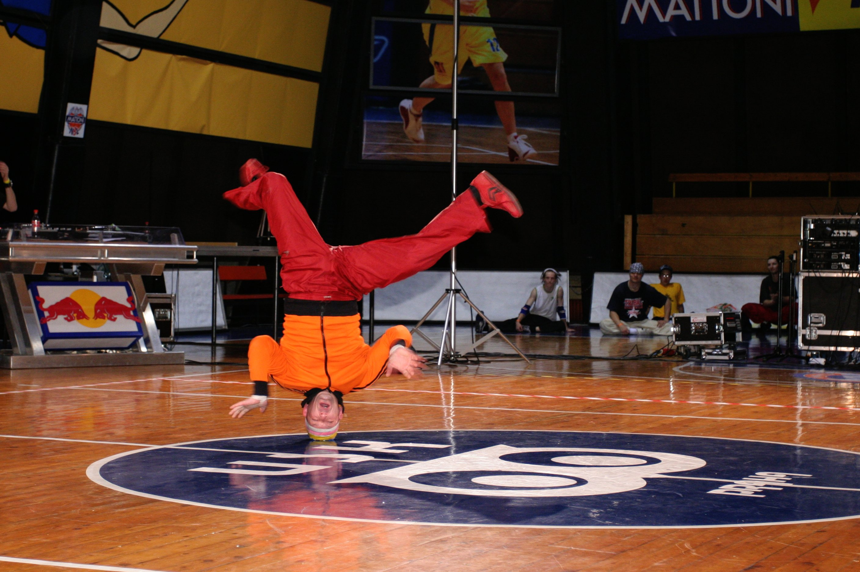 Hahny (Skyliners, Germany) performing a headspin at the Battle of the Year CZ 2006 Breakdance event